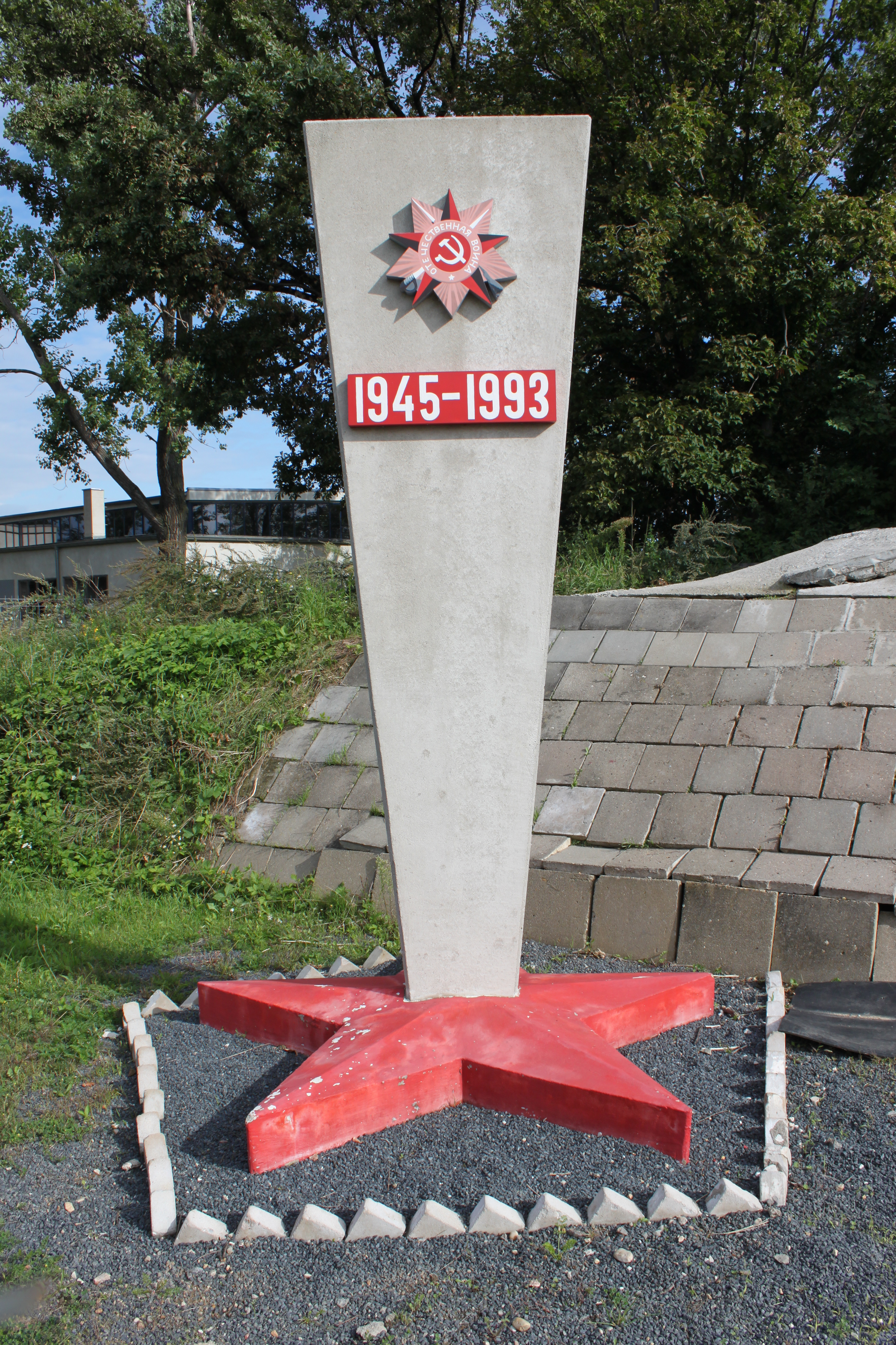 «Memorial stele» of the Soviet Army 1945-1993, with Order of the Patriotic War, on the Grossenhain airfield, location site to the 296. Fighter-bomber Aviation Regiment (unit № 181989, code name Bogatyrsky; withdrawn 1993 to MD Oktyabrsy).